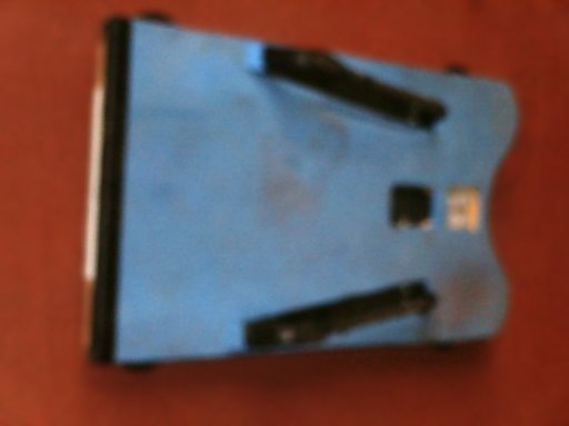 A practice skeleton sled at the Australian Institute of Sport. In selecting a team, potential athletes first practiced the push start, which involves a 30 metres sprint while pushing the sled. Rather than sliding on ice, this practice sled has wheels underneath so it can roll on an ordinary surface.